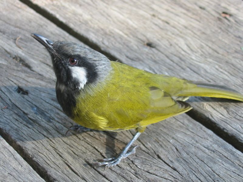 This poor little White-eared Honeyeater smacked into a window and sat there for about 15 minutes catching it's breath. Lichenostomus leucotis, Laguna, New South Wales